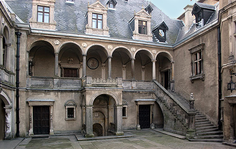 Gołuchów Castle